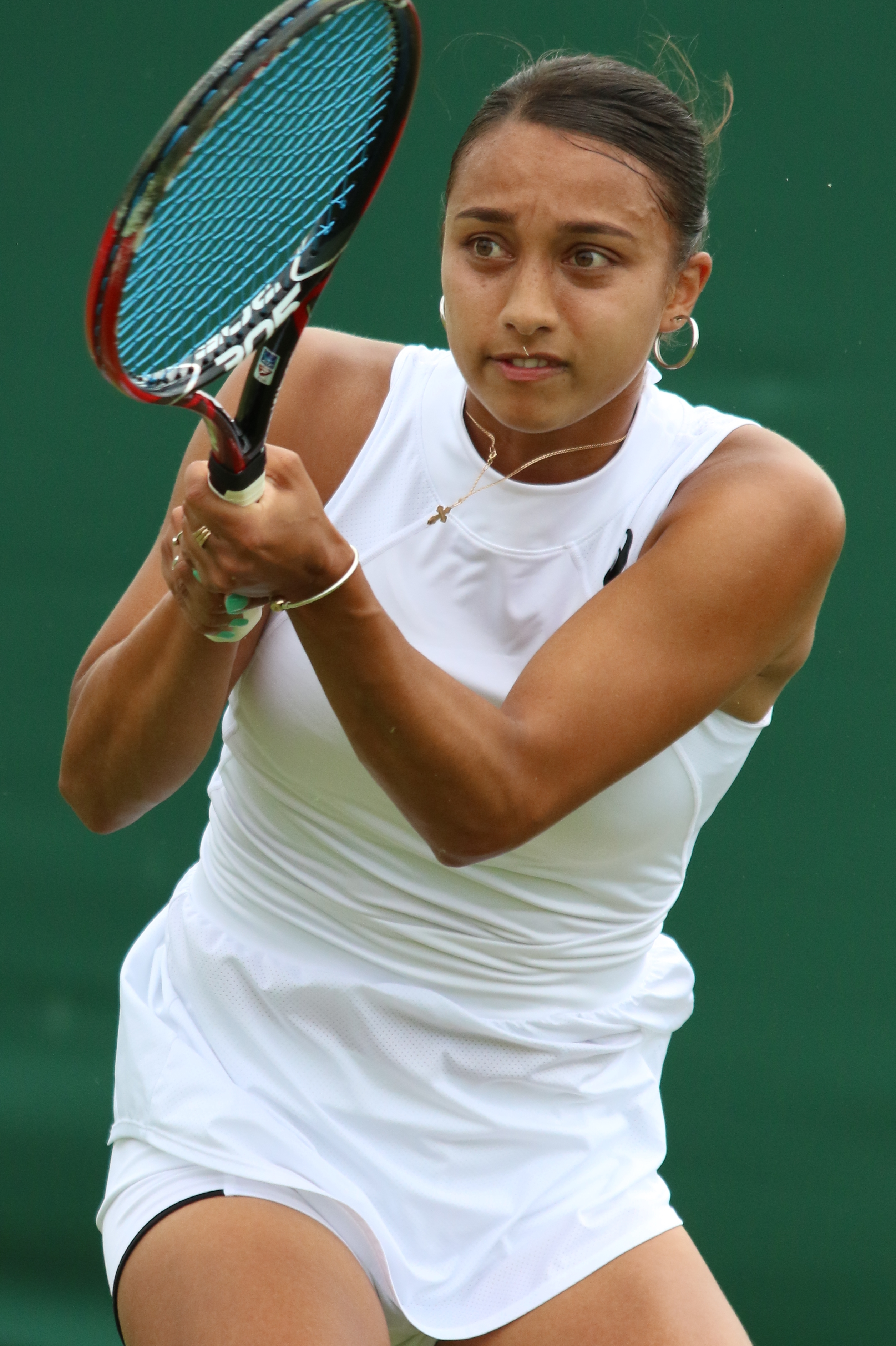 2019 Wimbledon Qualifying Tournament.